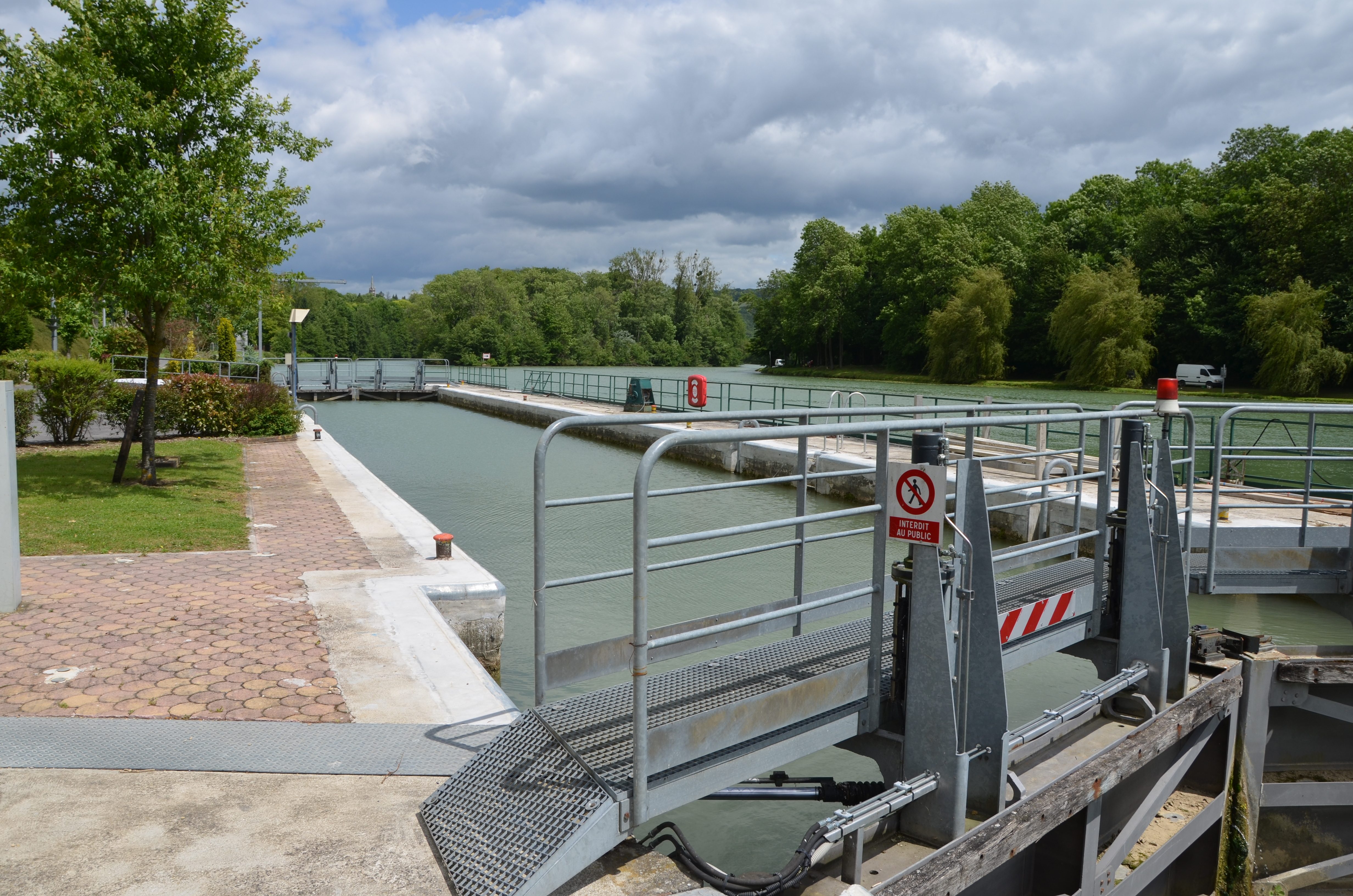 Lock on the river Marne in Mont Saint Père sur la Marne, Aisne, France